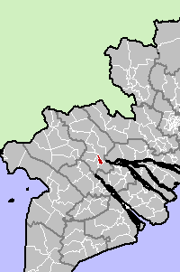 Sa Dec, Dong Thap Province, Vietnam.